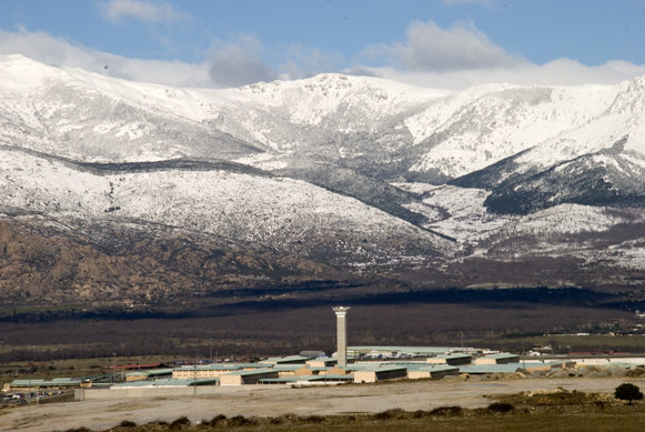 Soto del Real prison, Madrid outskirts (Spain)